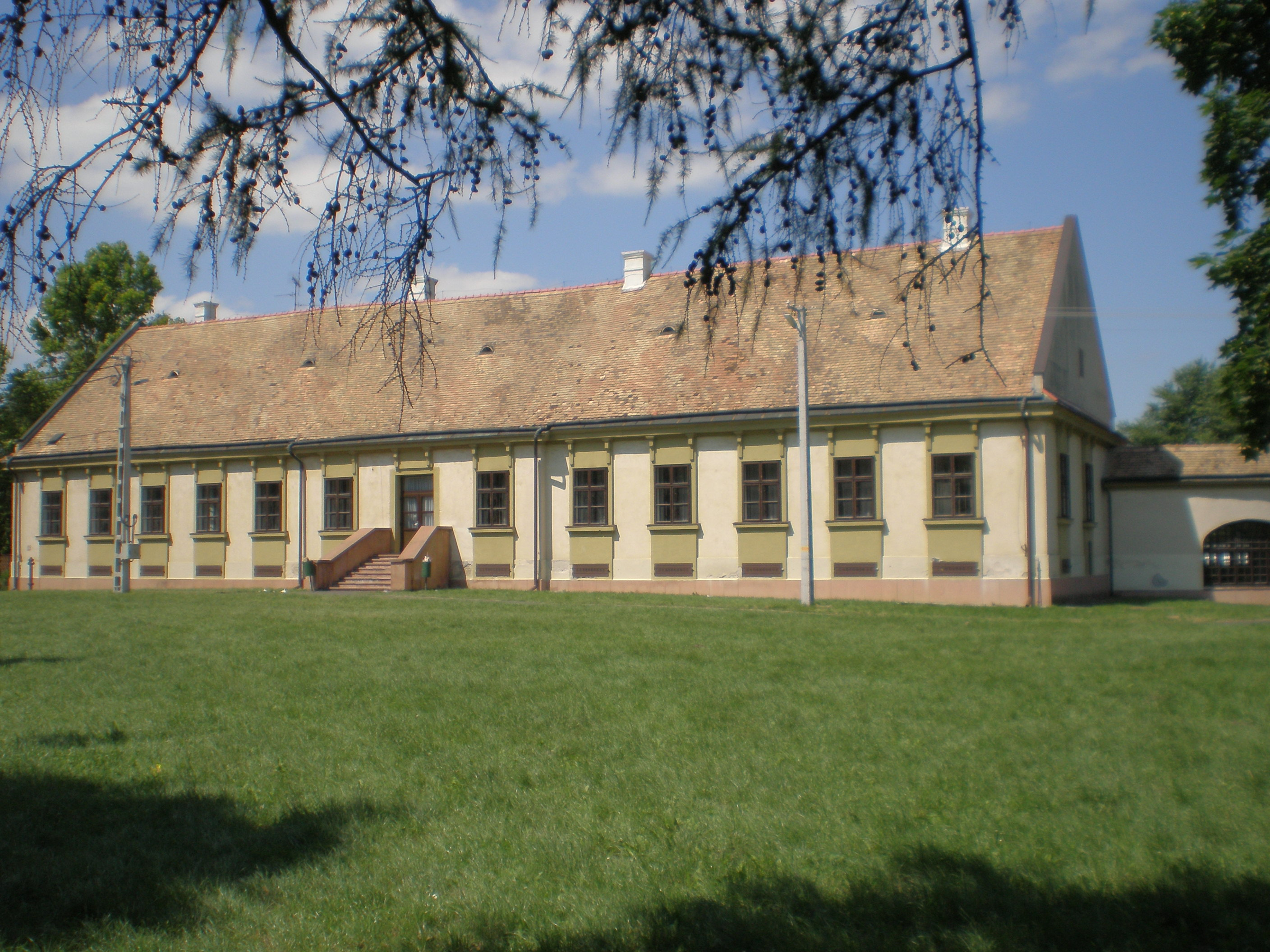 =This is a mansion in Ménfőcsanak, Győr. Listed ID 4423. Built by Count Tata's Ferenc Esterházy around 1780. Since 1812 lived here the Bezerédj family. Now, House of culture named after Sándor Petőfi, including a library and a Memorial room to Erzsébet Galgóczi. This is a photo of a monument in Hungary. Identifier: 4423